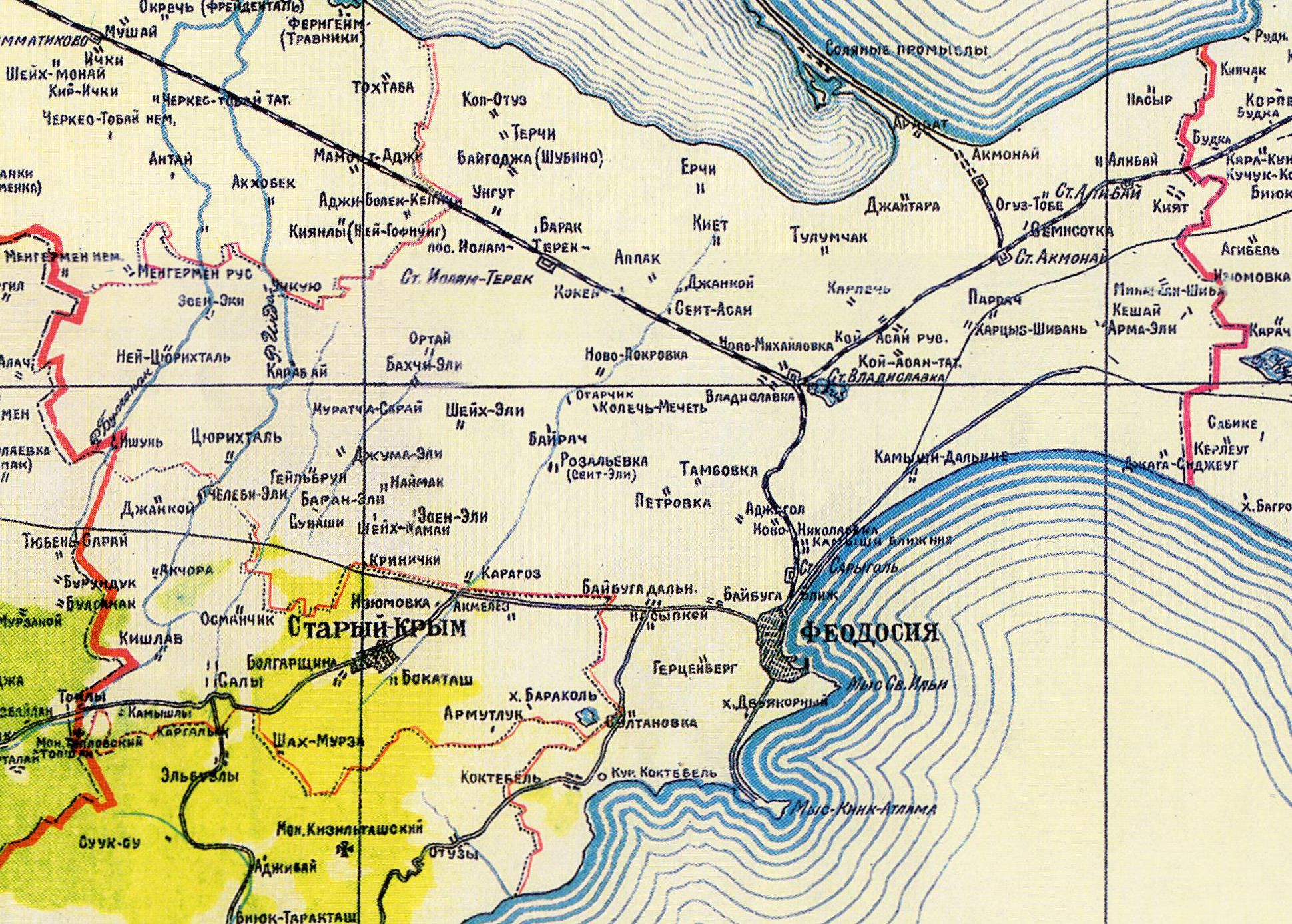 Vladislavovsky district, Crimea. 1922